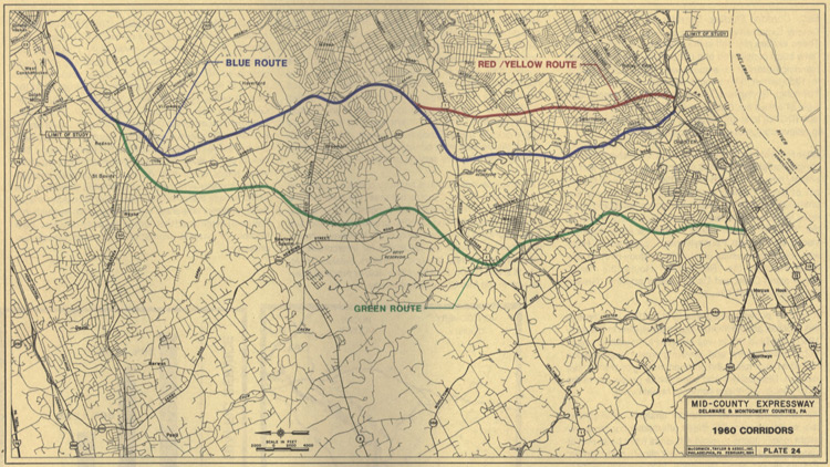 Original 1960 plans for the Mid-County Expressway corridor through Delaware and Montgomery Counties; illustrates the source of the "Blue Route" nickname.